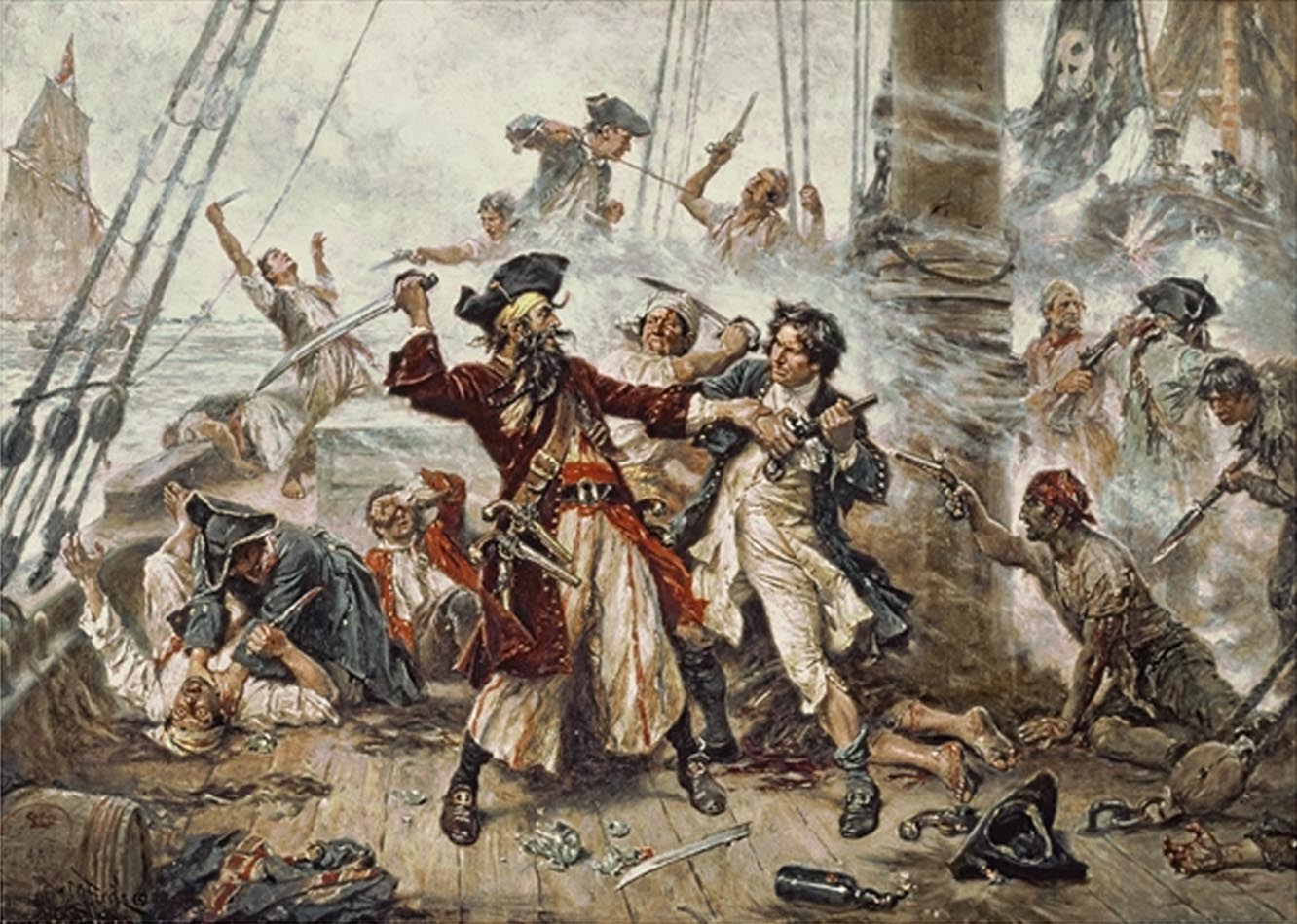 Capture of the Pirate, Blackbeard, 1718 depicting the battle between Blackbeard the Pirate and Lieutenant Maynard in Ocracoke Bay